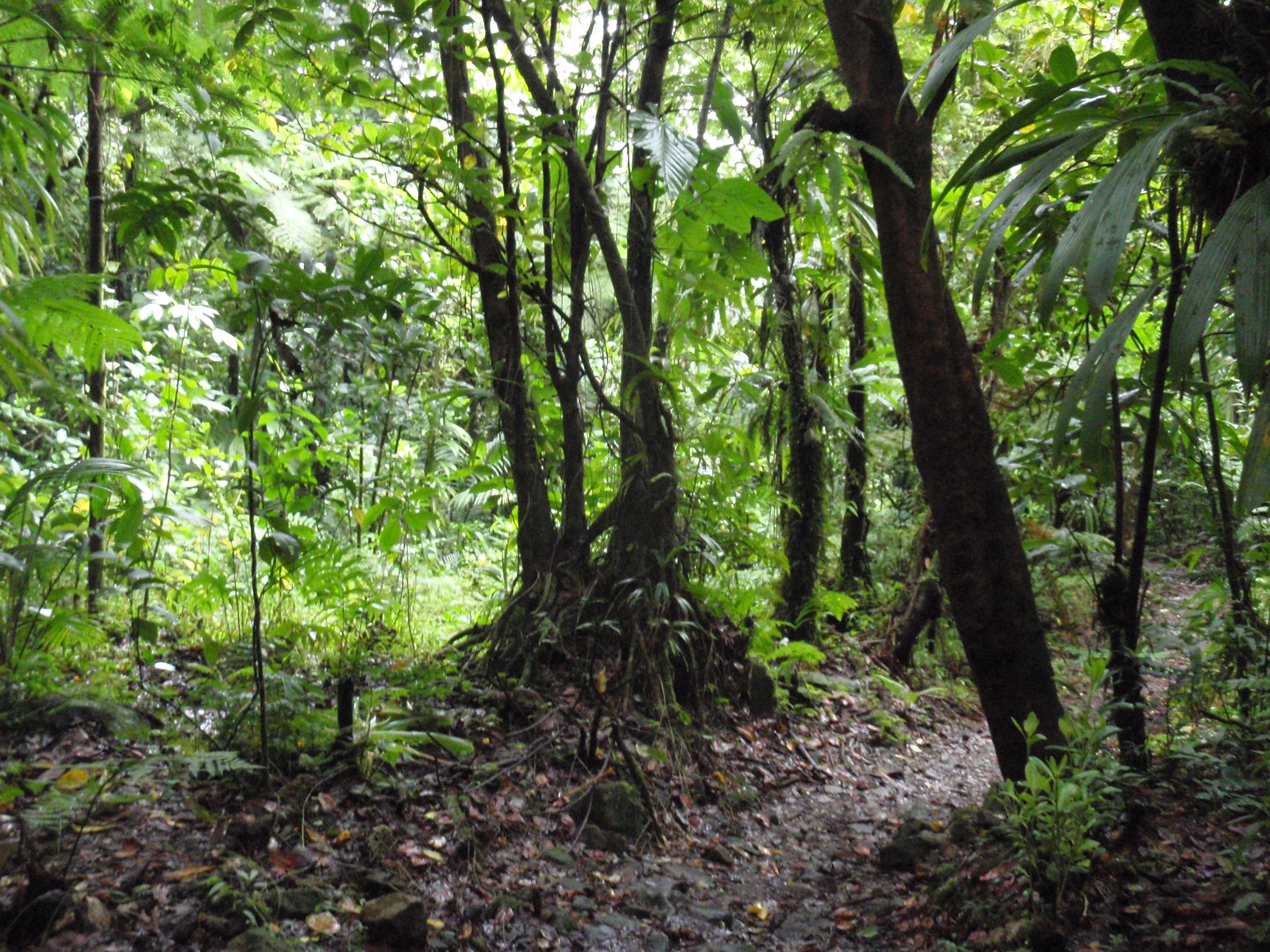 A jungle area at the Morne Trois Pitons National Park in Dominica